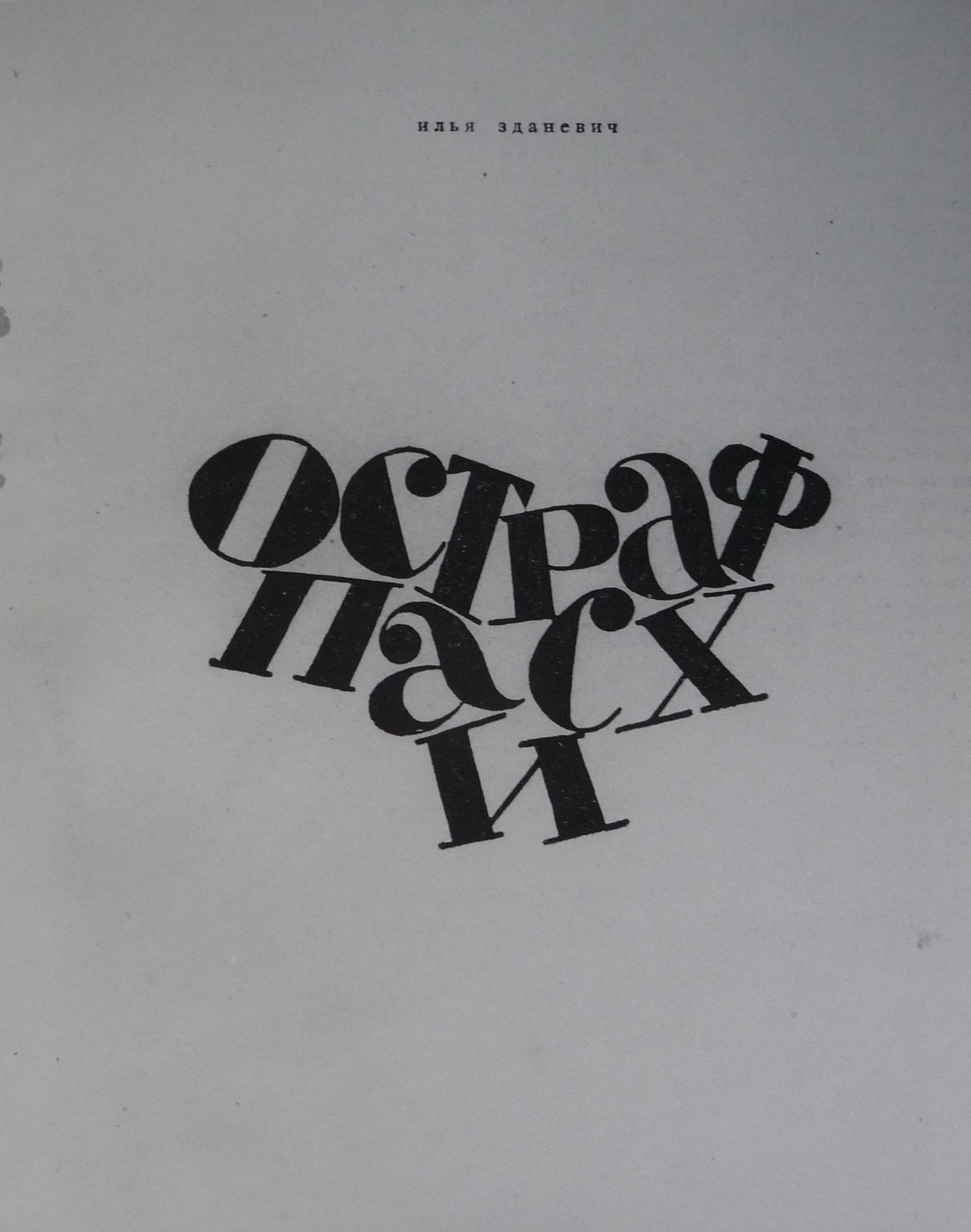 Ilja Zdanevic: Ostraf Pashi. Tiflis 1919. Frontpage